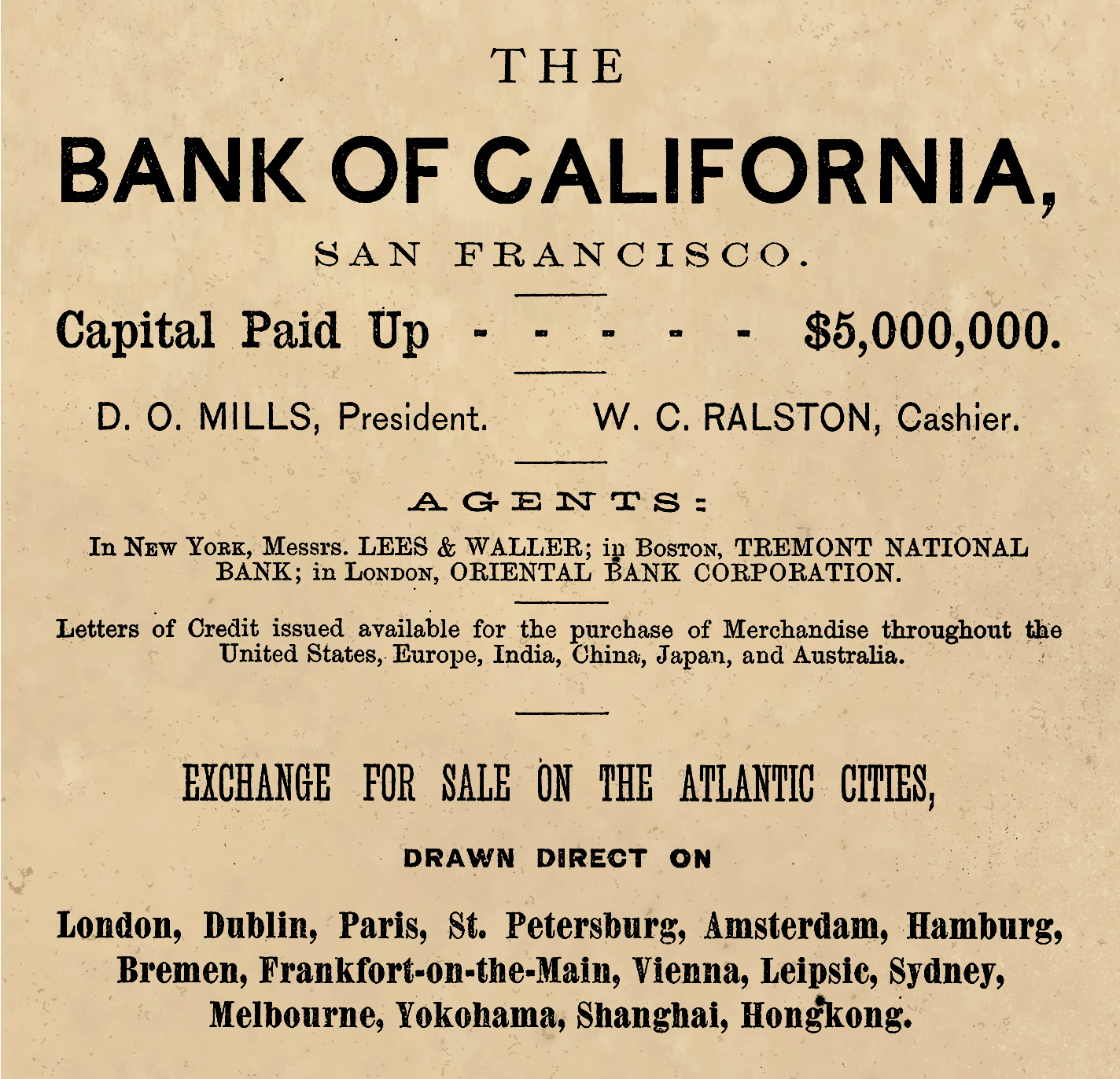 Bank of California advertisement as published in "The Overland Monthly", January, 1870 (Vol. 4, No. 1) San Francisco: A. Roman & Co., Publishers